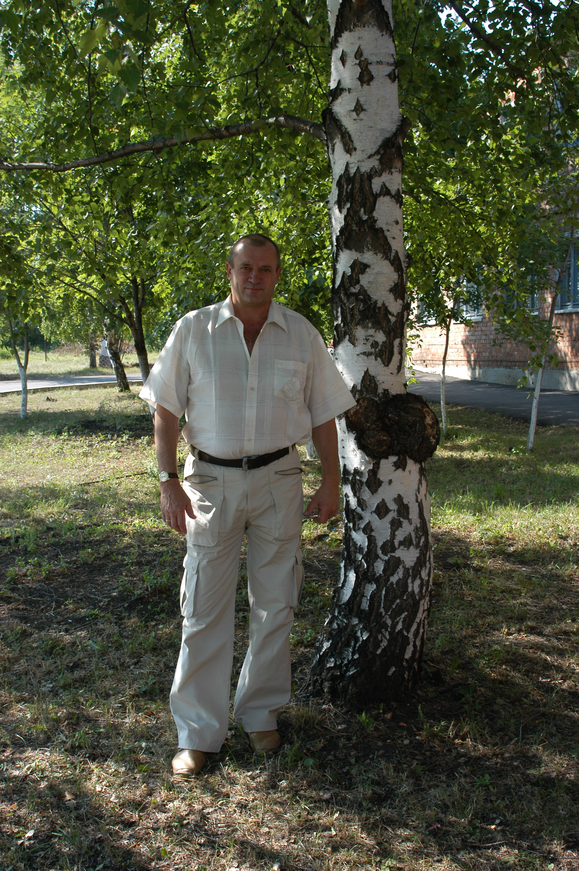 Nikolai Melnyk